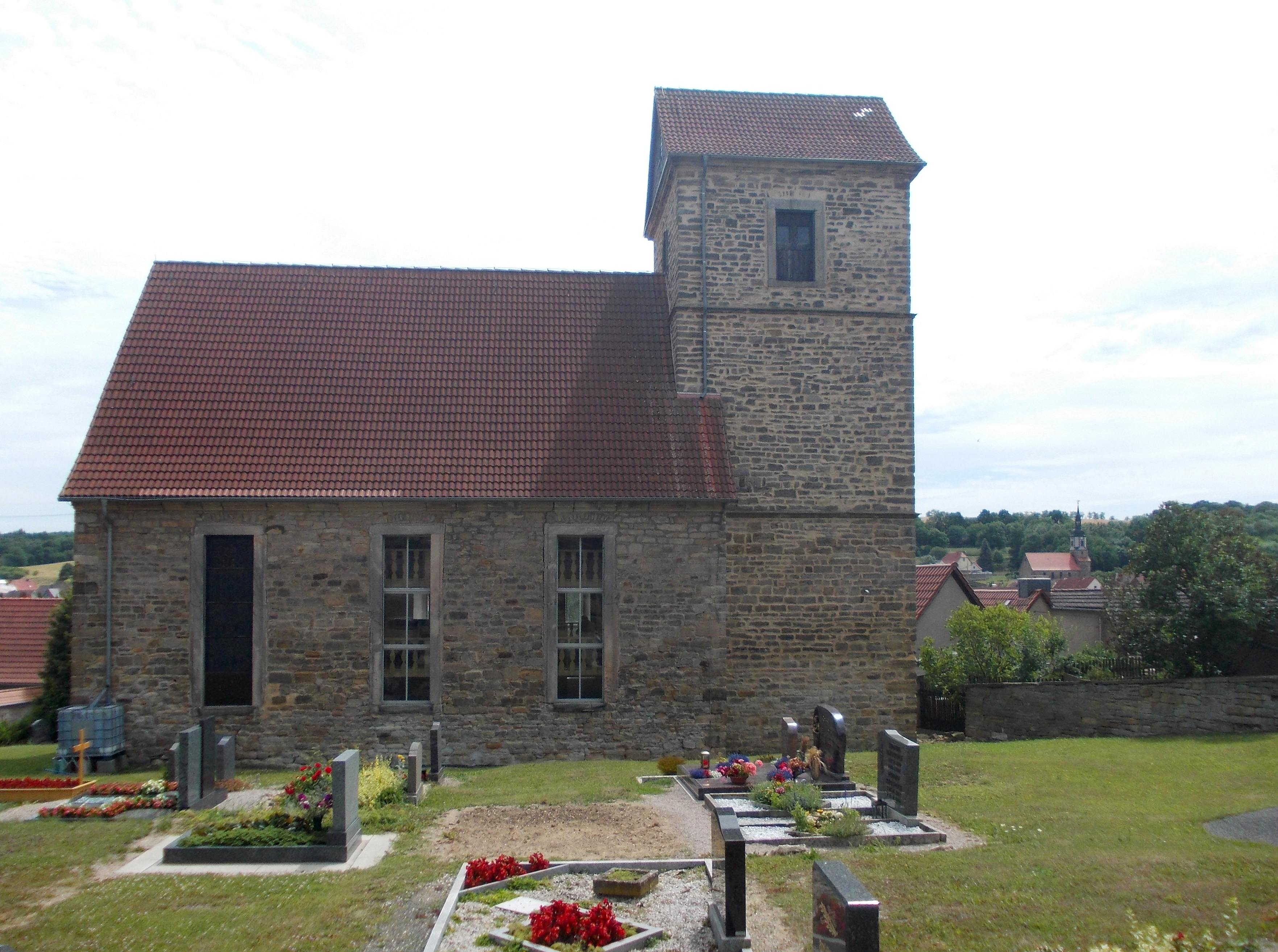 St. Nicholas' Church in Saubach (Finneland, district: Burgenlandkreis, Saxony-Anhalt)